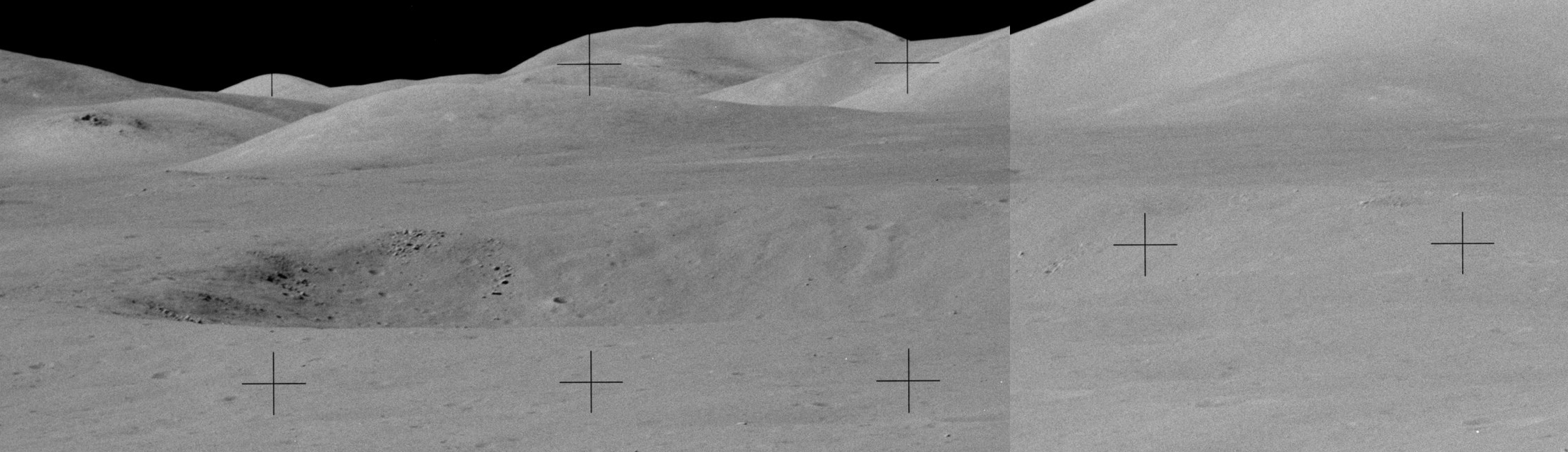 Henry, Taurus–Littrow valley, the moon. Mosaic of two images taken at Geology Station 6 on the Apollo 17 mission. Facing roughly south.